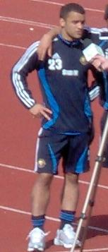 South African football player Lance Davids after an open traning at Stockholms Stadion.